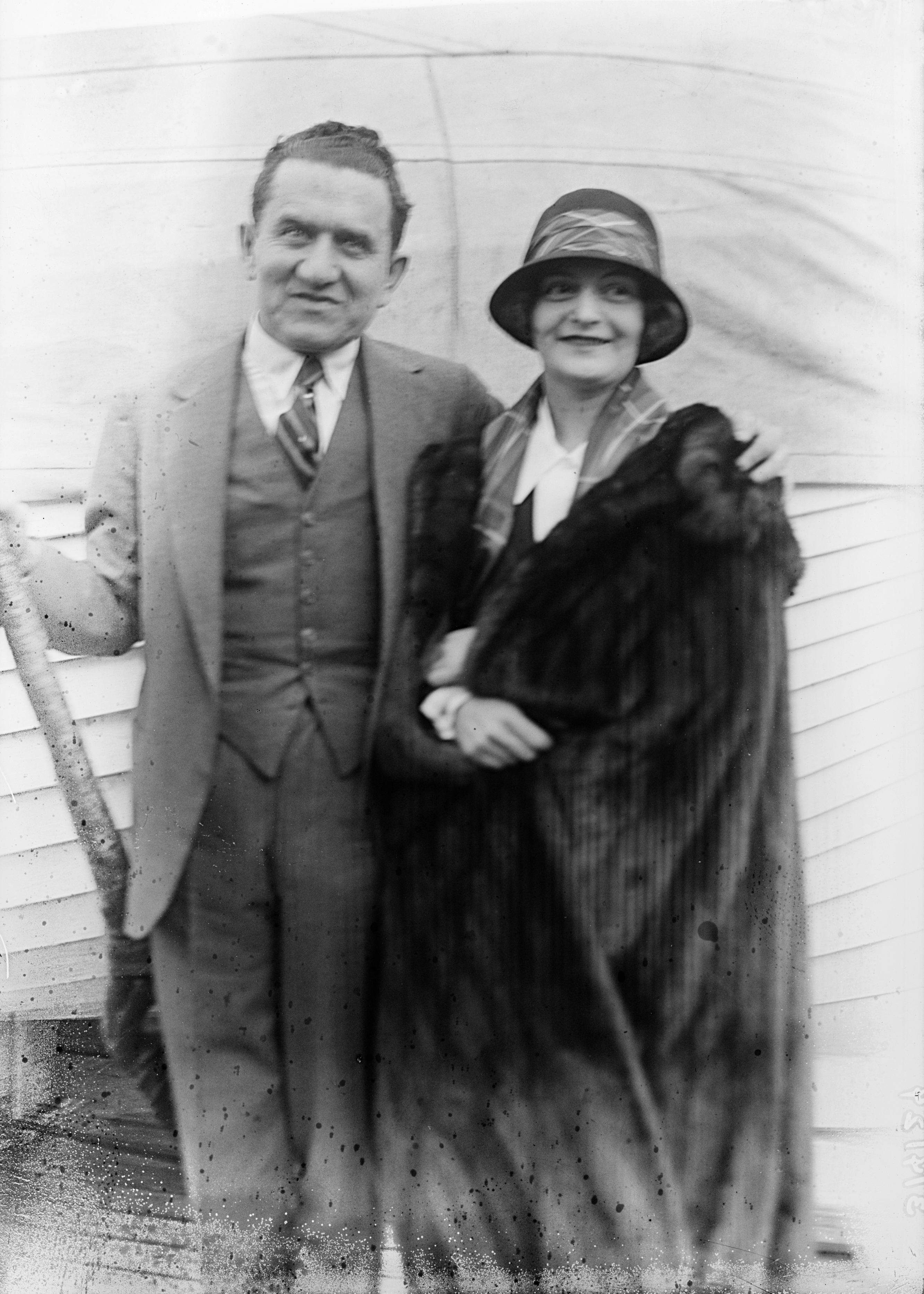 Title: Archie Selwyn and wife Creator(s): Bain News Service, publisher Medium: 1 negative : glass ; 5 x 7 in. or smaller.